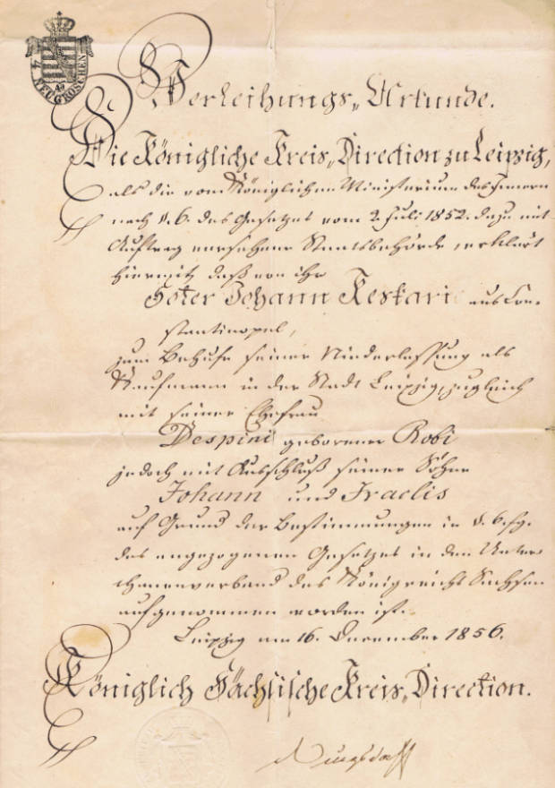 Sotir Ketskarov ie Soter Keskari Königlich Sächsische Kreis-Direction Document